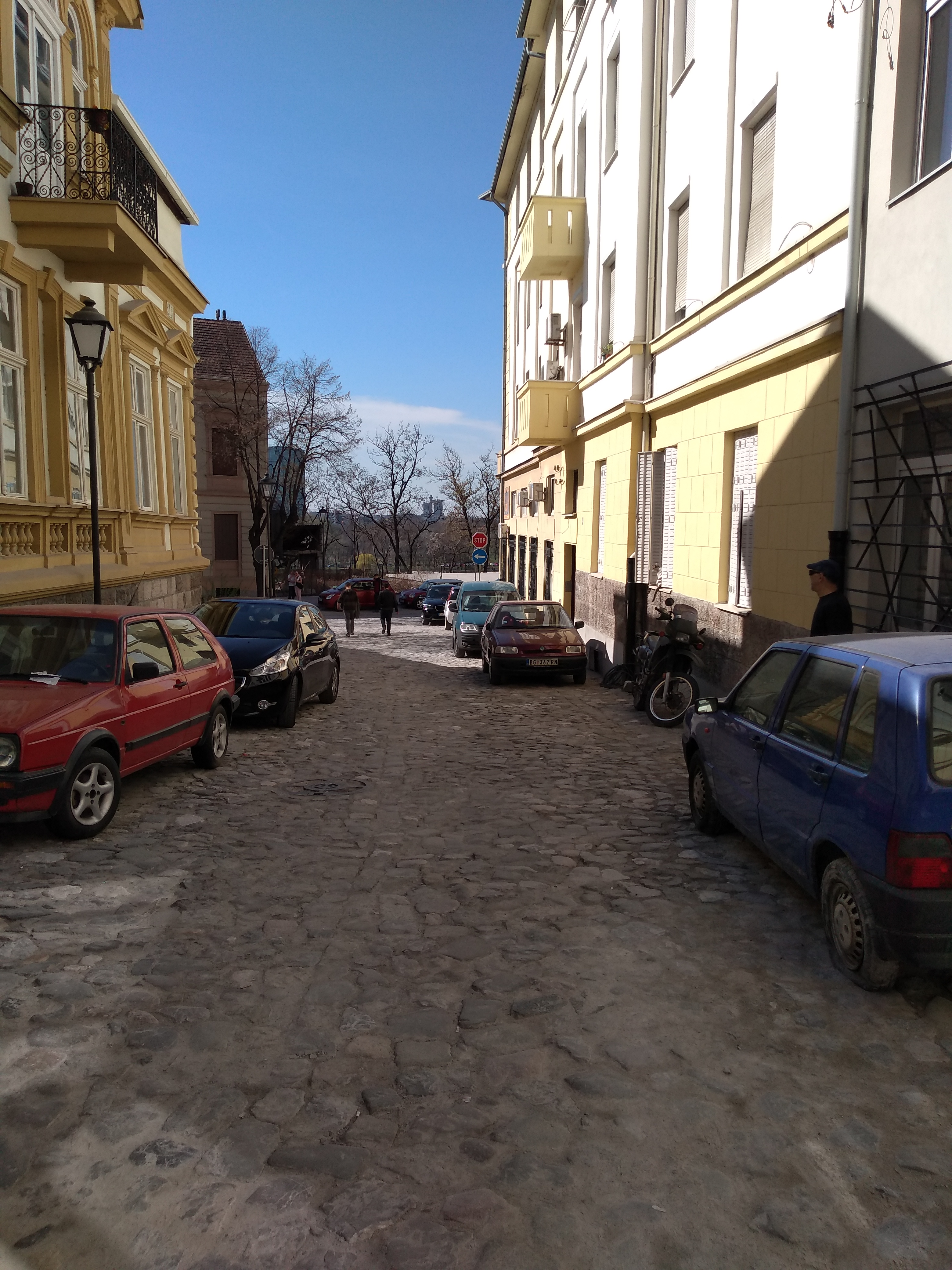 Zadarska street in Belgrade, near Kosancic venac, Serbia Srpski (latinica): Zadarska ulica koja izlazi na Kosančićev venac u Beogradu.